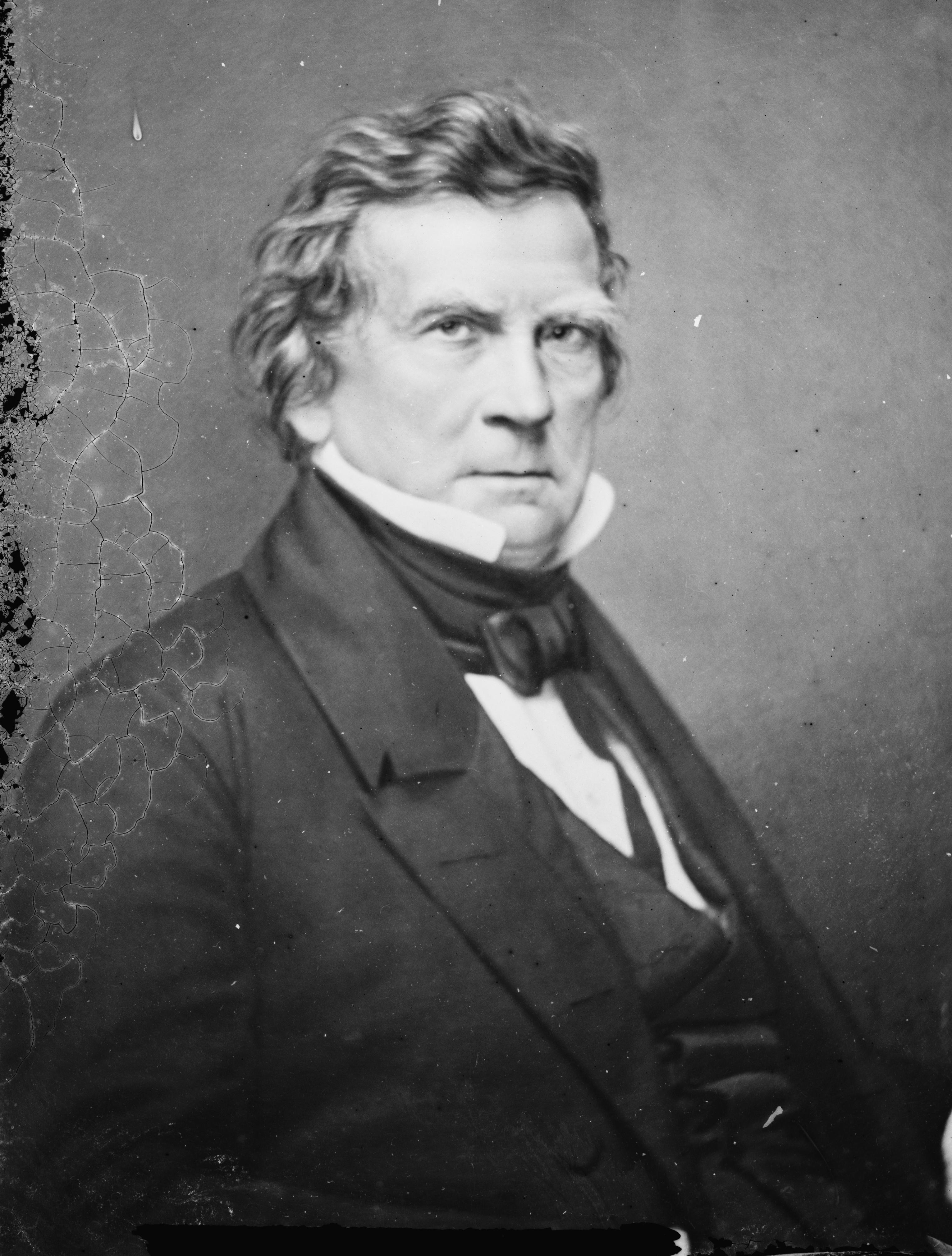 William L. Marcy. Library of Congress description: "Hon. Wm. L. Marcy of N.Y."